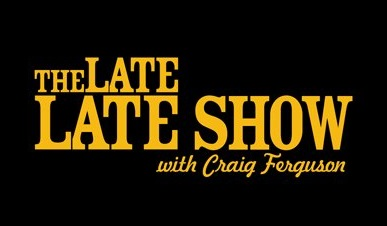 Title screen for The Late Late Show with Craig Ferguson